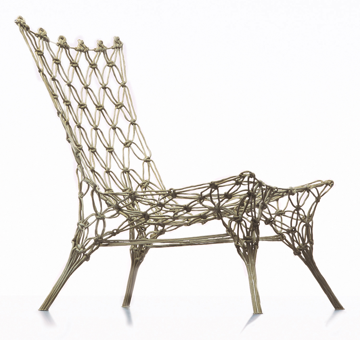 oui bien sur